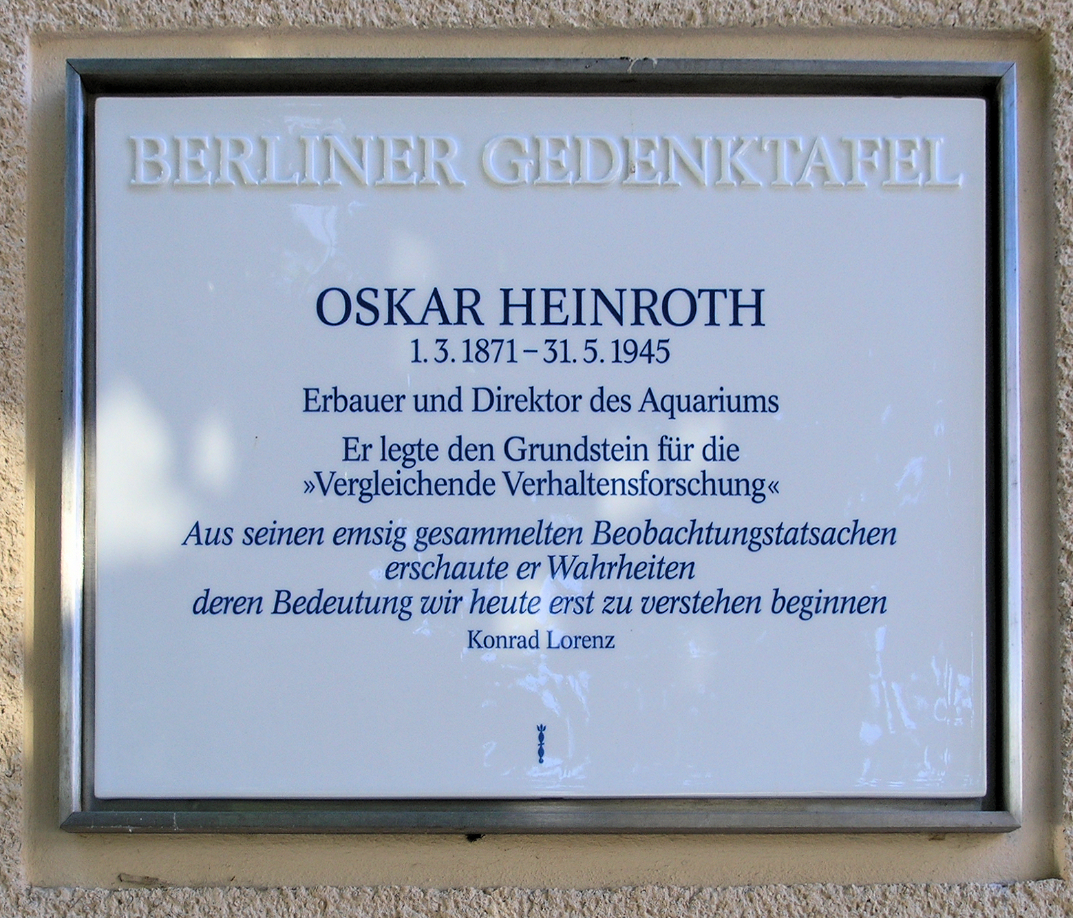 Berlin memorial plaque, Oskar Heinroth, Budapester Straße 32, Berlin-Tiergarten, Germany Koordinate:52°30′21″N 13°20′25″E / 52.50583°N 13.34028°E